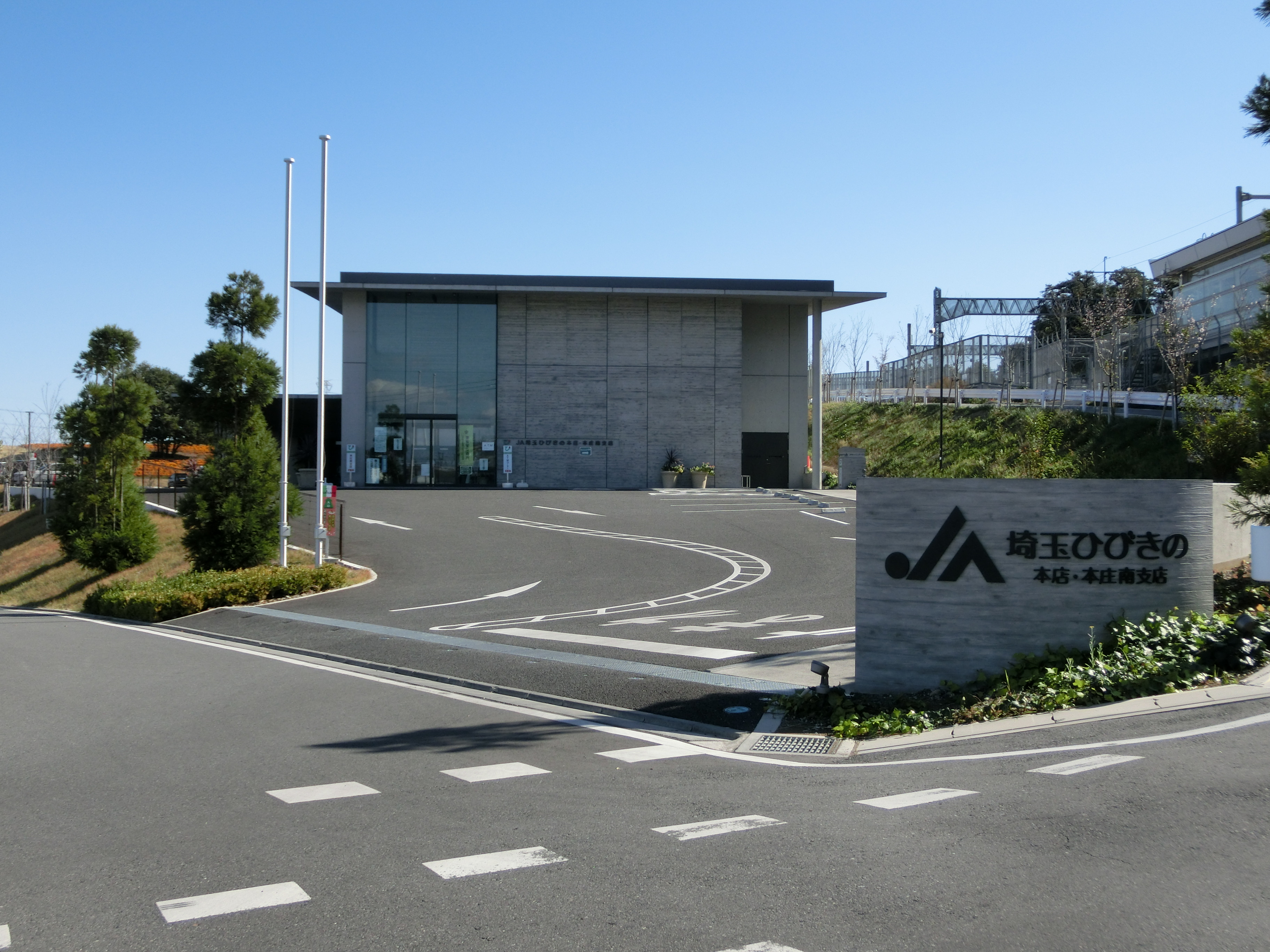 JA Saitama Hibikino Headquarters